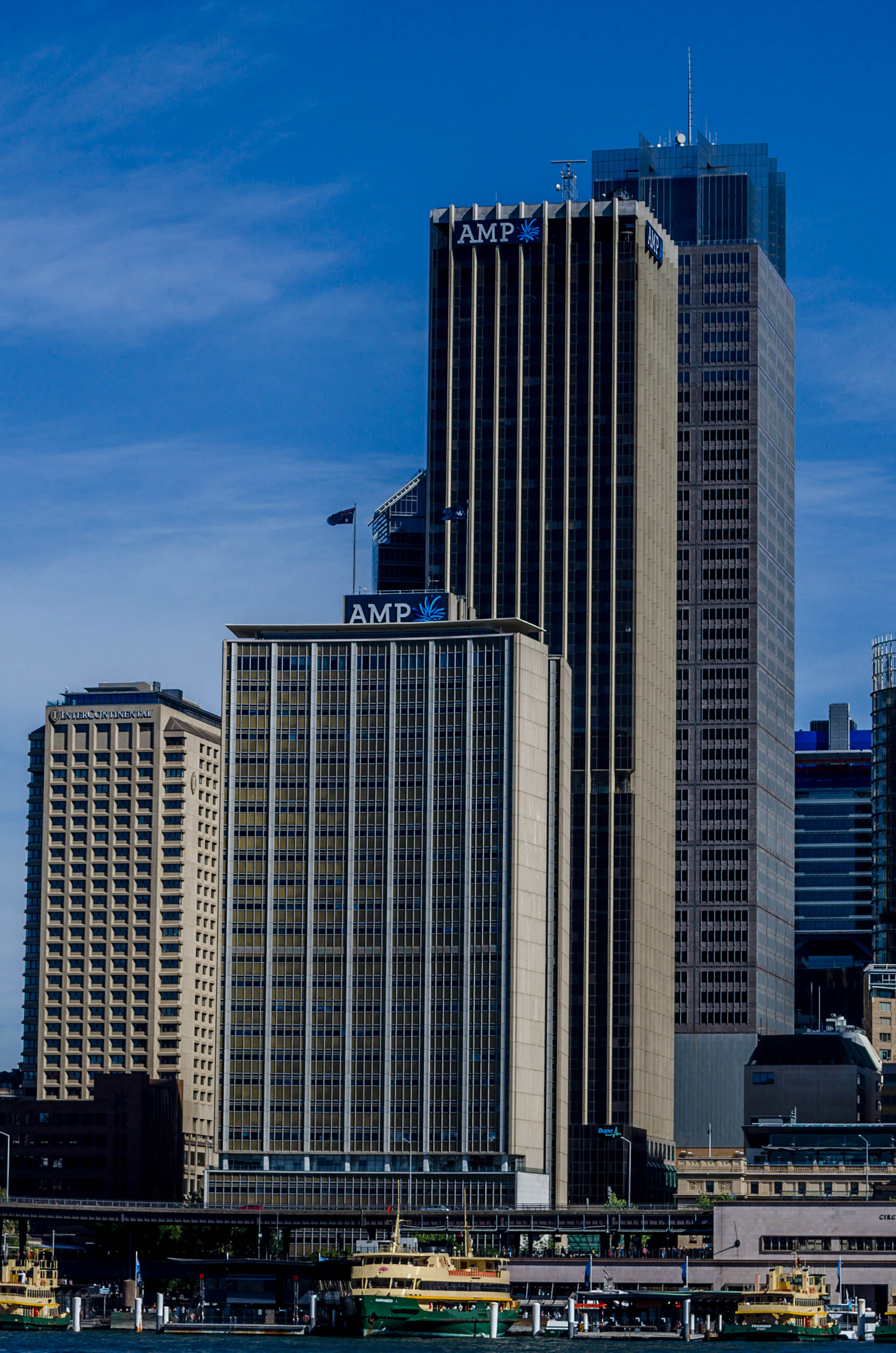 AMP Building and AMP Centre. Sydney